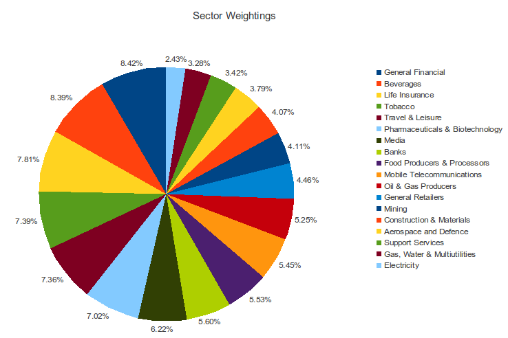 An example of a pie chart with 18 values, having to separate the data from its representation. Note that several values are represented with the same color, making interpretation difficult.